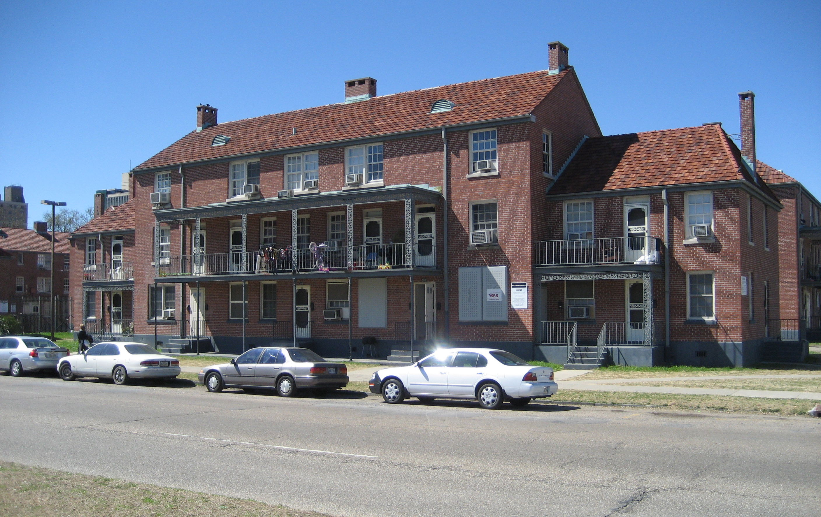 Part of the Iberville Housing Project, on Basin Street, New Orleans